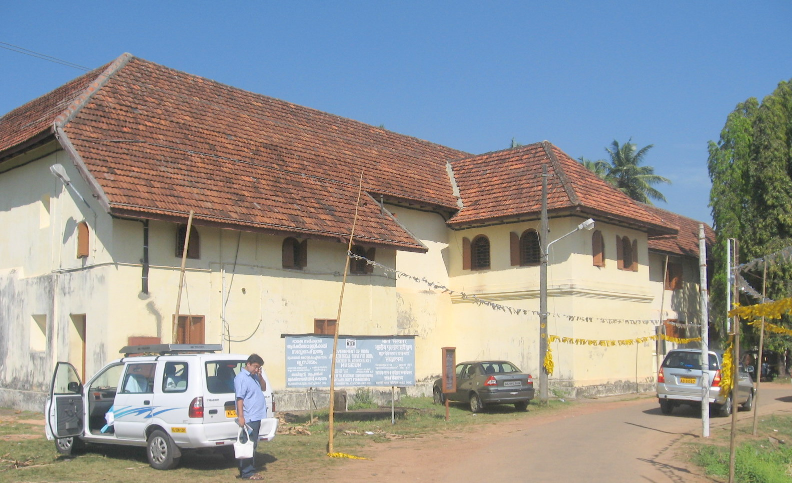 Dutch Palace, Kochi, Kerala